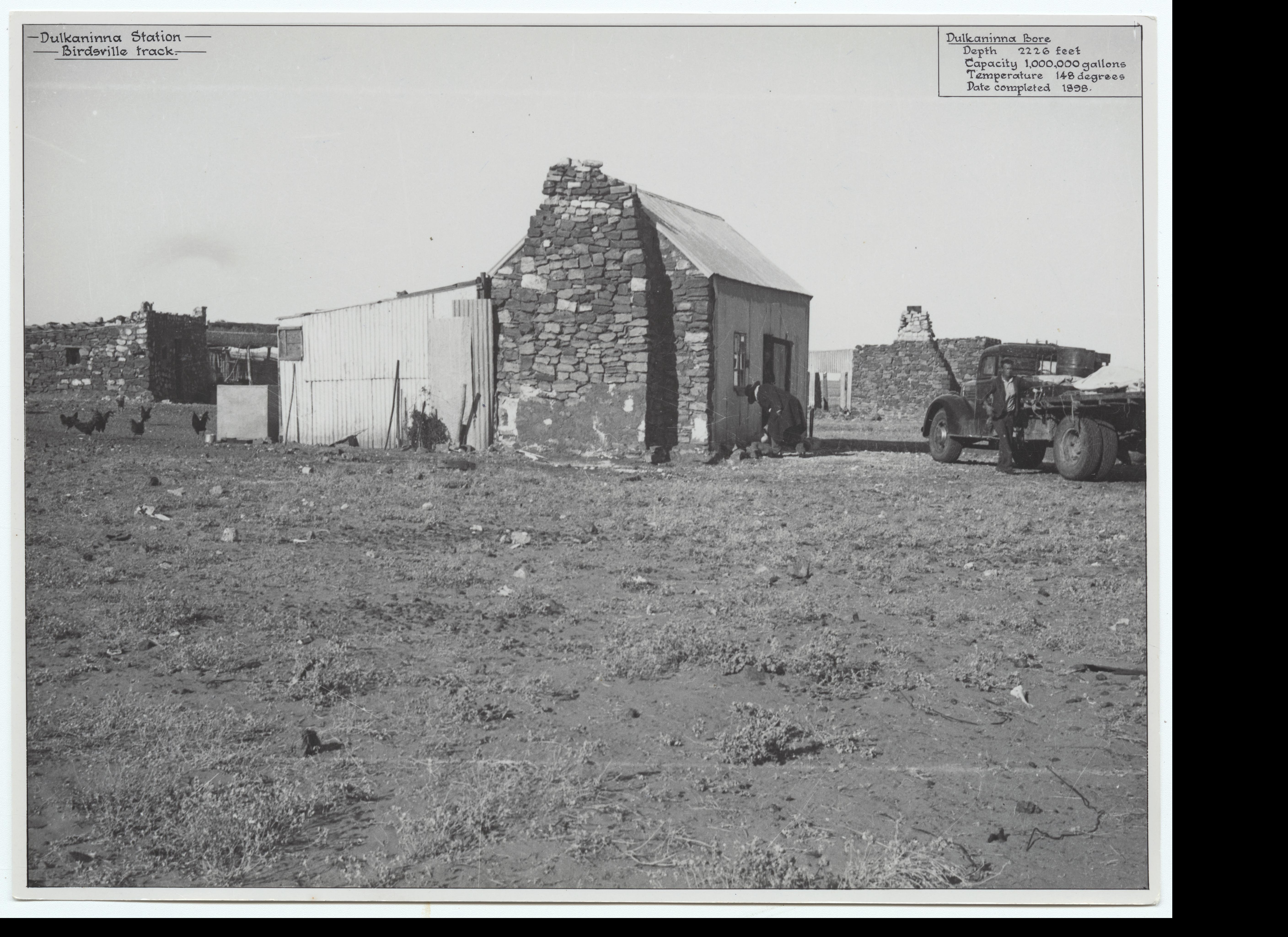 Dulkaninna Station, Birdsville Track. Dimensions of the Dulkaninna Bore: Depth: 2226 ft.; Capacity: 1,000,000 gallons; Temperature: 148 degrees; Date completed: 1898